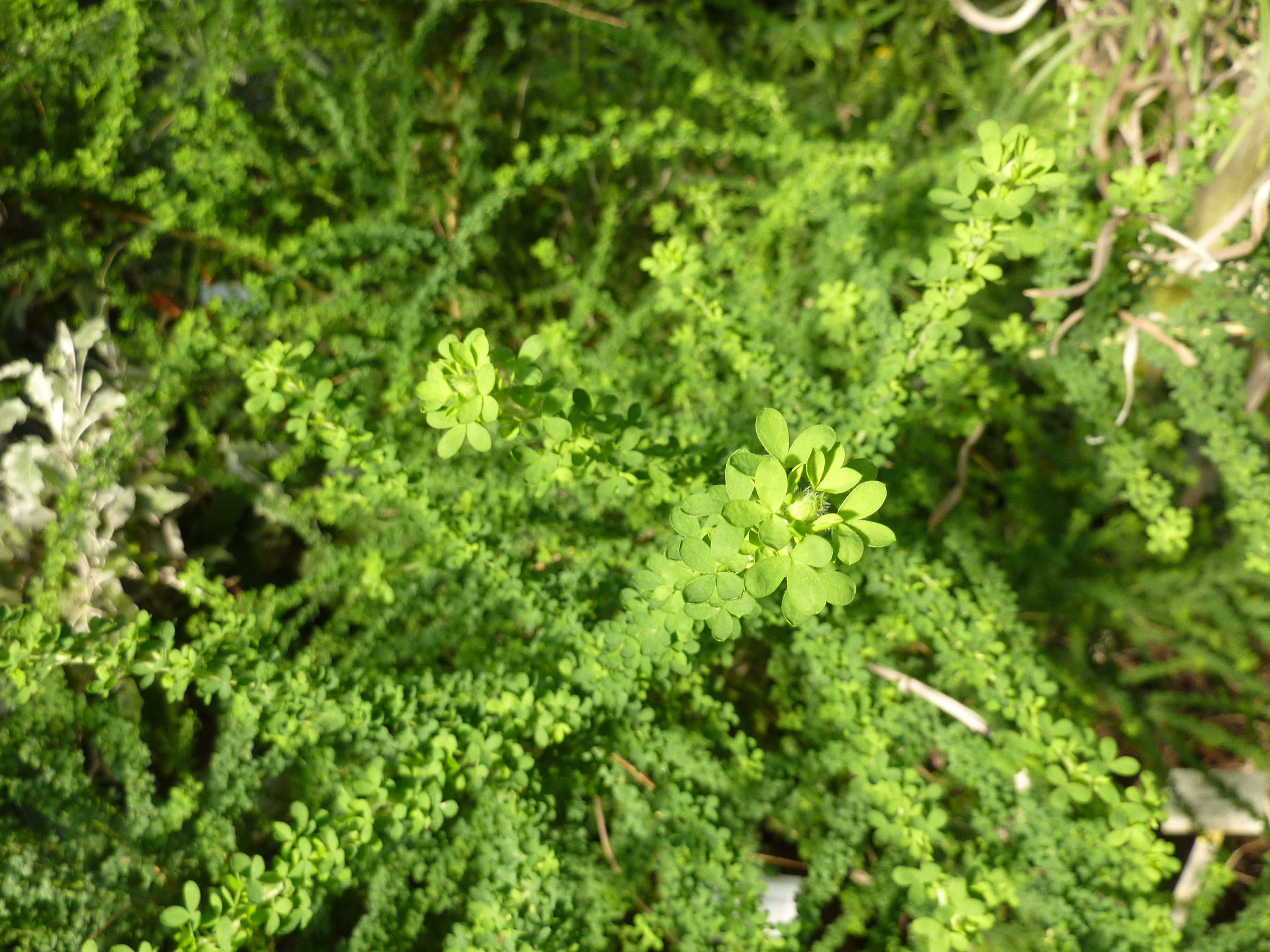 Genista canariensis in the Botanical Garden, Berlin